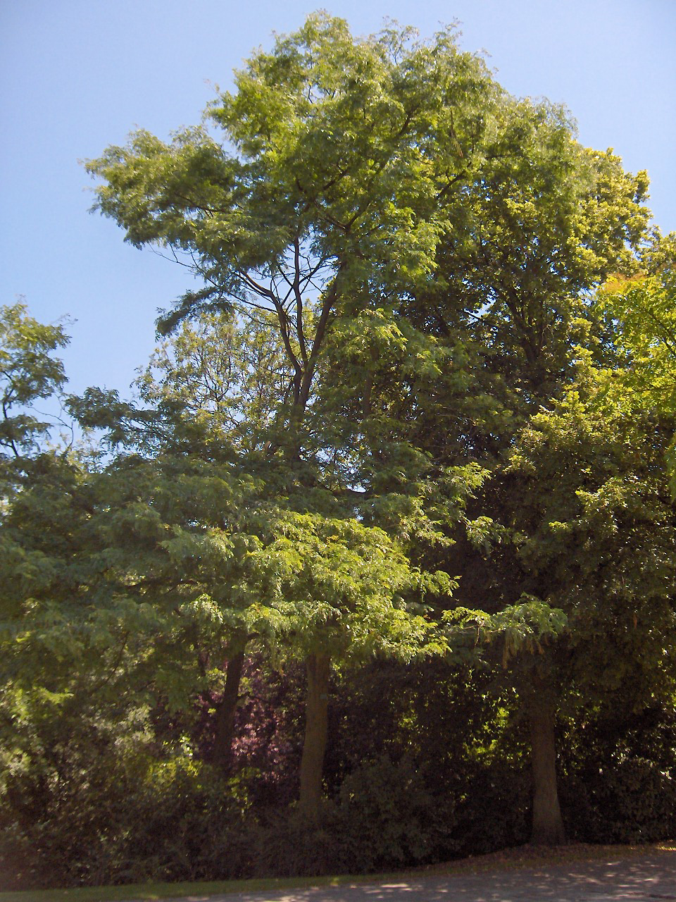 Species Gleditsia triacanthos Family Fabaceae